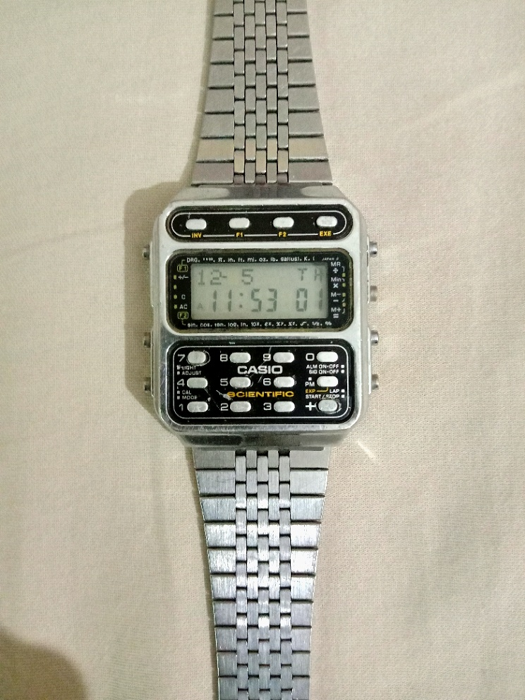 A 1983 Casio CFX200 scientific calculator watch.